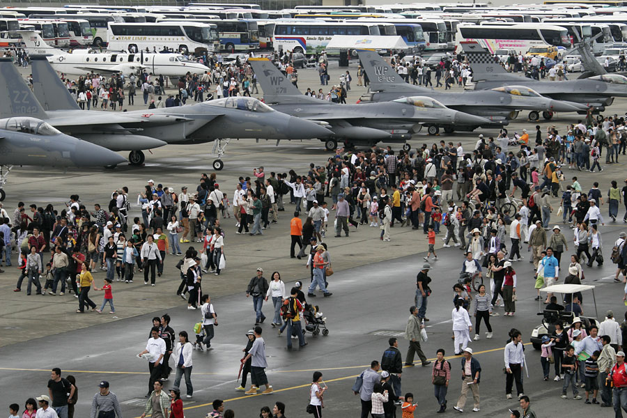 Visitors tour the Japanese and American aircraft on display at the Marine Corps Air Station Iwakuni apron line during Friendship Day 2008 Monday. Despite the overcast morning, the annual open house and air show drew more than 93,000 attendees before noon.